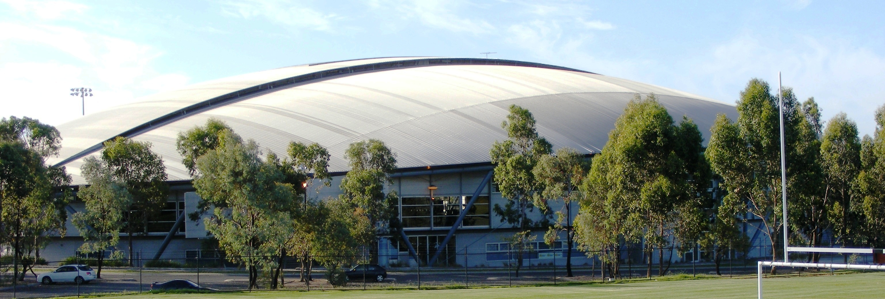 Dunc Gray at Bass Hill New South Wales